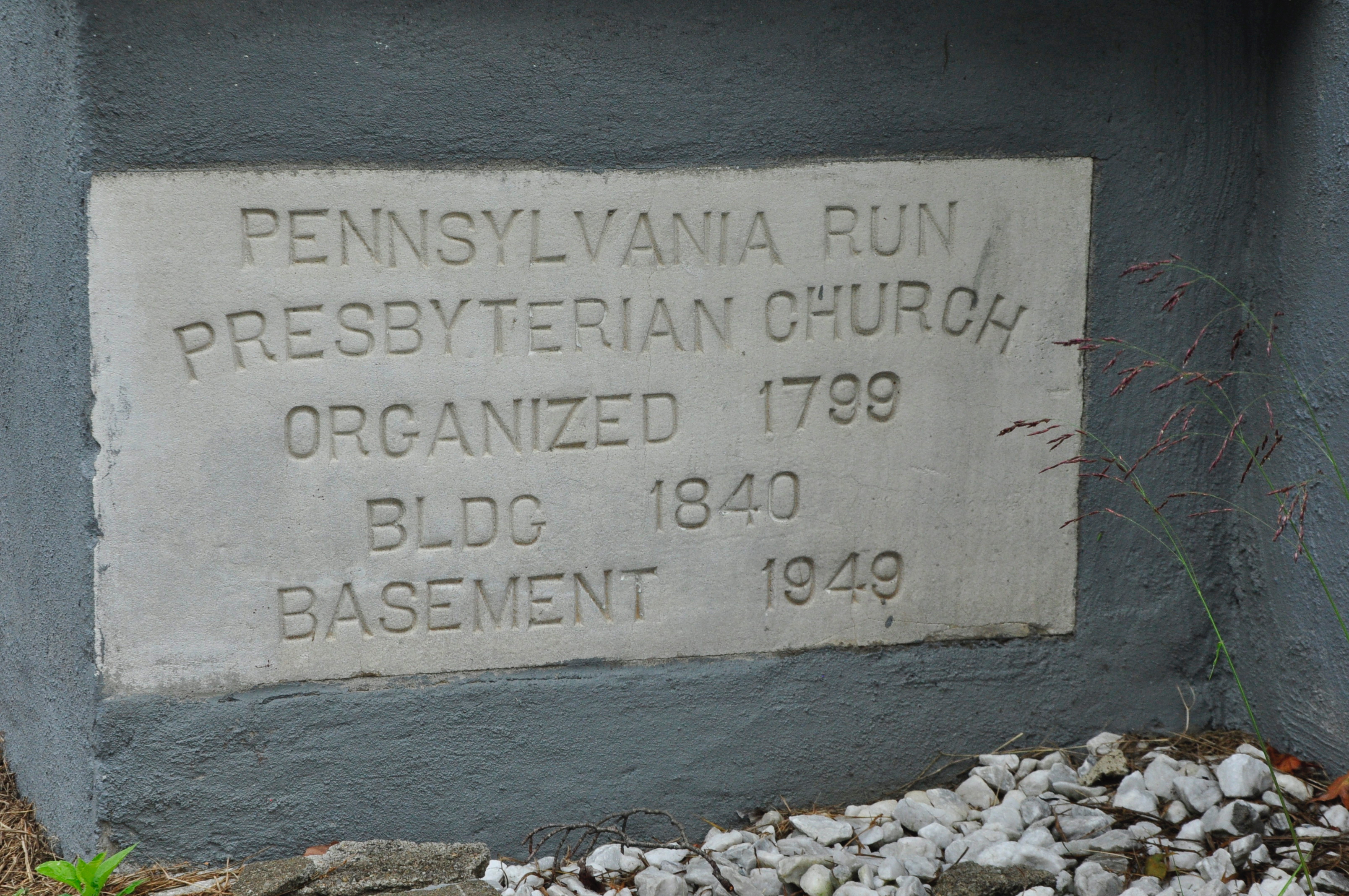 Pennsylvania Run Presbyterian Church sign